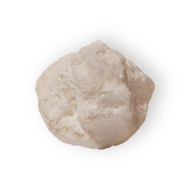 These mineral images are free to use how you wish.